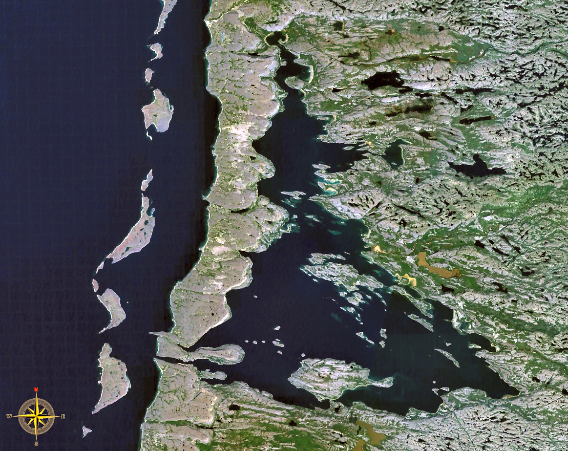 Satellite view of Richmond Gulf (Lac Guillaume-Delisle), northern Quebec, Canada.